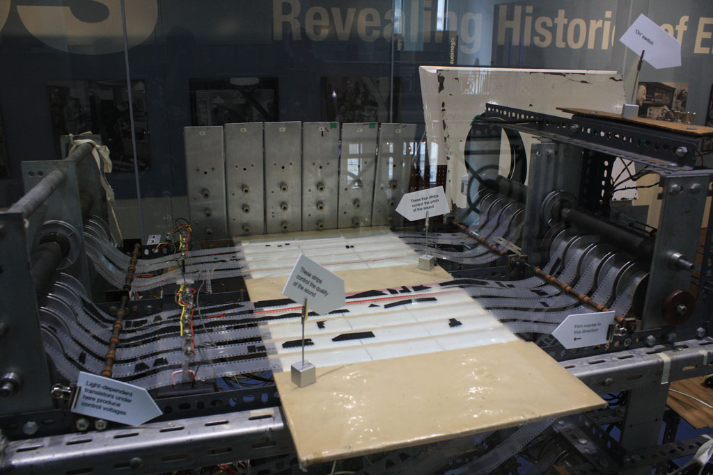 Old school electronica This is what I came to see: the Oramics Machine. Modern synths are rubbish - this is what it's all about. fyi, they were playing some of the music created by this machine. It sounds like the Aphex Twin remix of Zeroes and Ones by Jesus Jones.